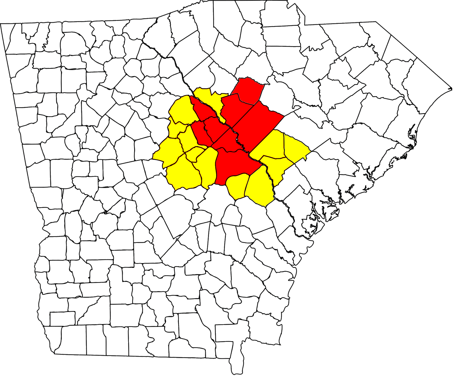 Augusta MSA along with the CSRA